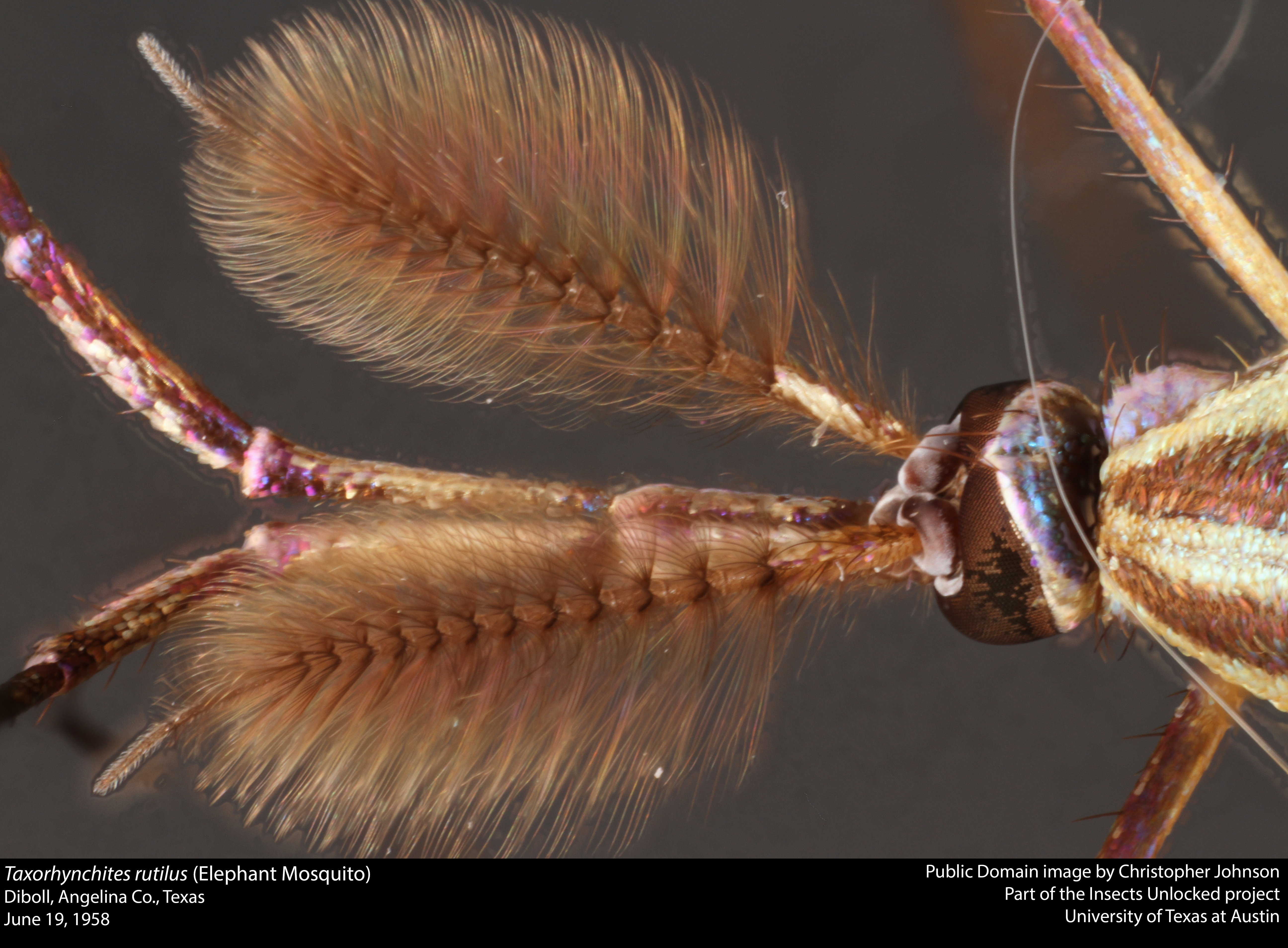 Taxorhynchites rutilus (Elephant Mosquito) Diboll, Angelina Co., Texas June 19, 1958 Public Domain image by Christopher Johnson Part of the Insects Unlocked project University of Texas at Austin